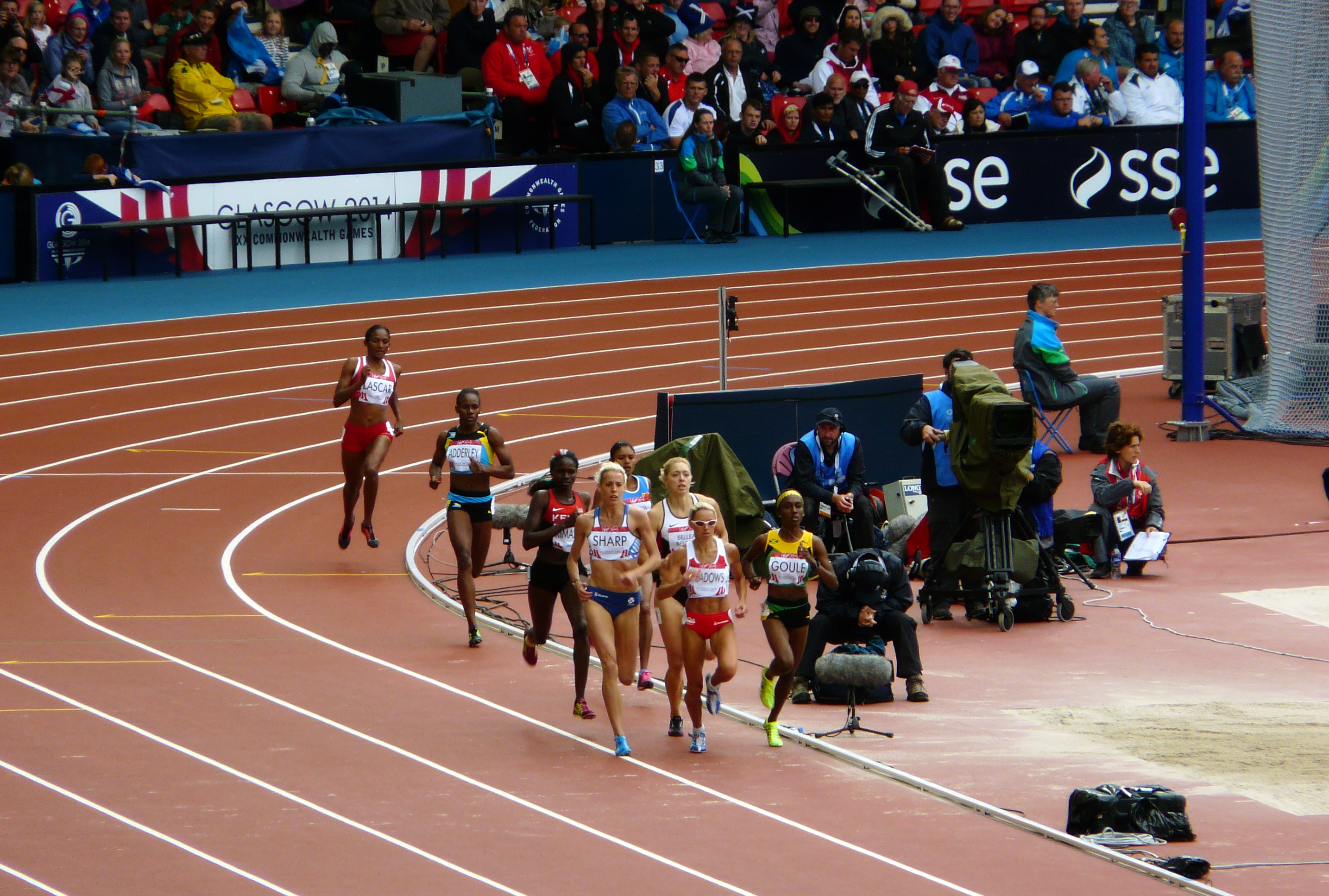 Hampden Park Glasgow Commonwealth Games Day 7 Athletics Morning Session Wednesday 30th July 2014 Women's 800m Round 1, Heat 1: Jennifer Meadows (Eng), Lynsey Sharp (Sco), Natoya Goule (Jam), Karine Belleau-Beliveau (Can), Agatha Kimaswai (Ken), Teshon Adderley (Bah), Nimali W Konda Liyana Arachchige (Sri), Annabelle Lascar (Mri)